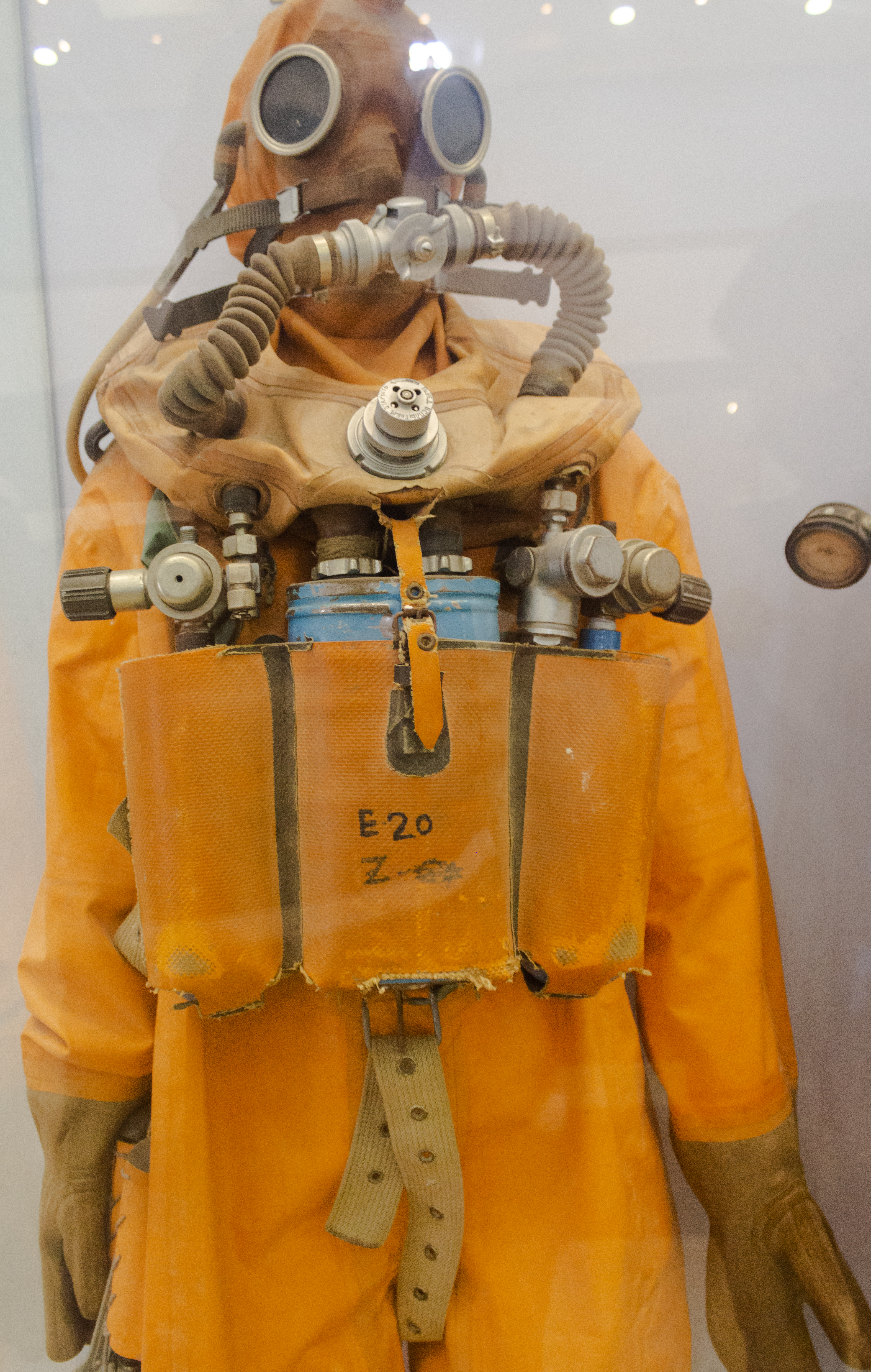 Model of a Submarine Escape Suit, on display at Visakha Museum, Andhra Pradesh, India. Object location17° 43′ 14.55″ N, 83° 20′ 01.79″ E